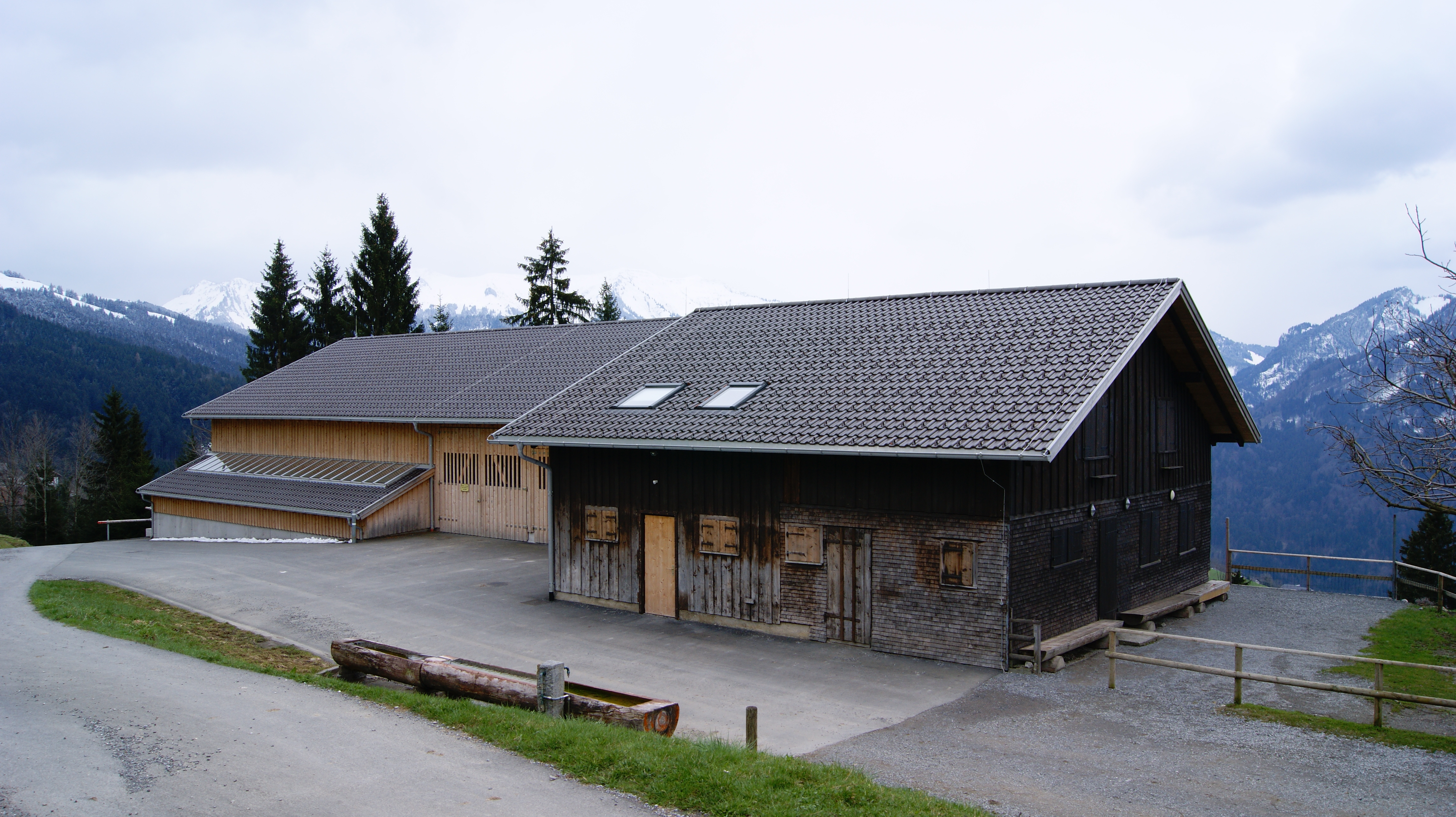 Alp "Schwende" in Dornbirn, Vorarlberg, Österreich.